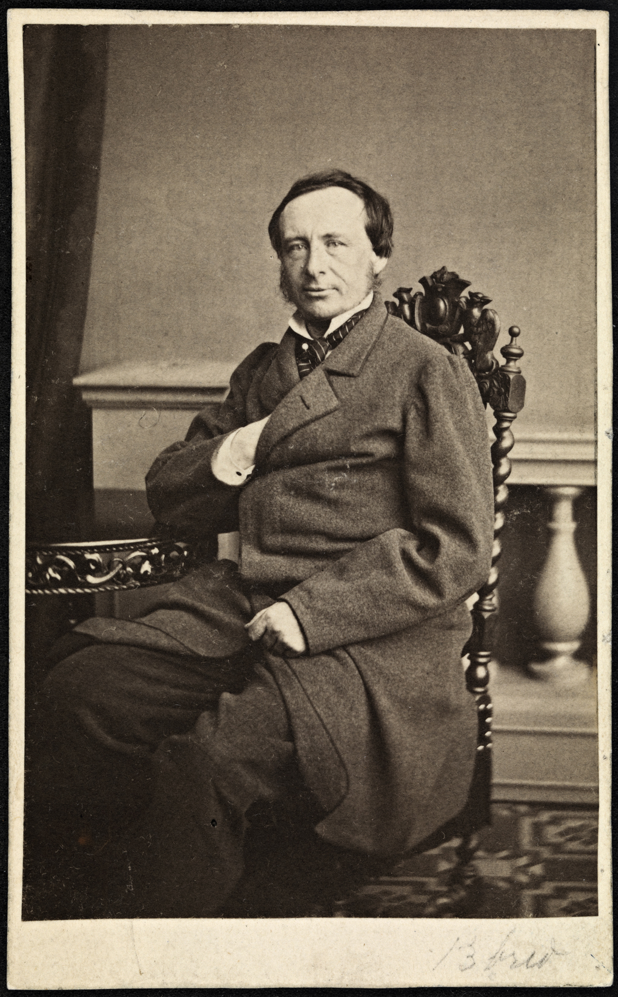 Tittel / Title: Portrett av Peter Andreas Munch (1810-1863) Motiv / Motif: Visittkort. P. A. Munch var historiker, språkforsker og geograf. Dato / Date: ca 1860 Fotograf / Photographer: Olsen & Thomsens Photographiske Atelier (Christiania) Sted / Place: Oslo Eier / Owner Institution: Nasjonalbiblioteket / National Library of Norway Lenke / Link: Bildesignatur / Image Number: blds_03345